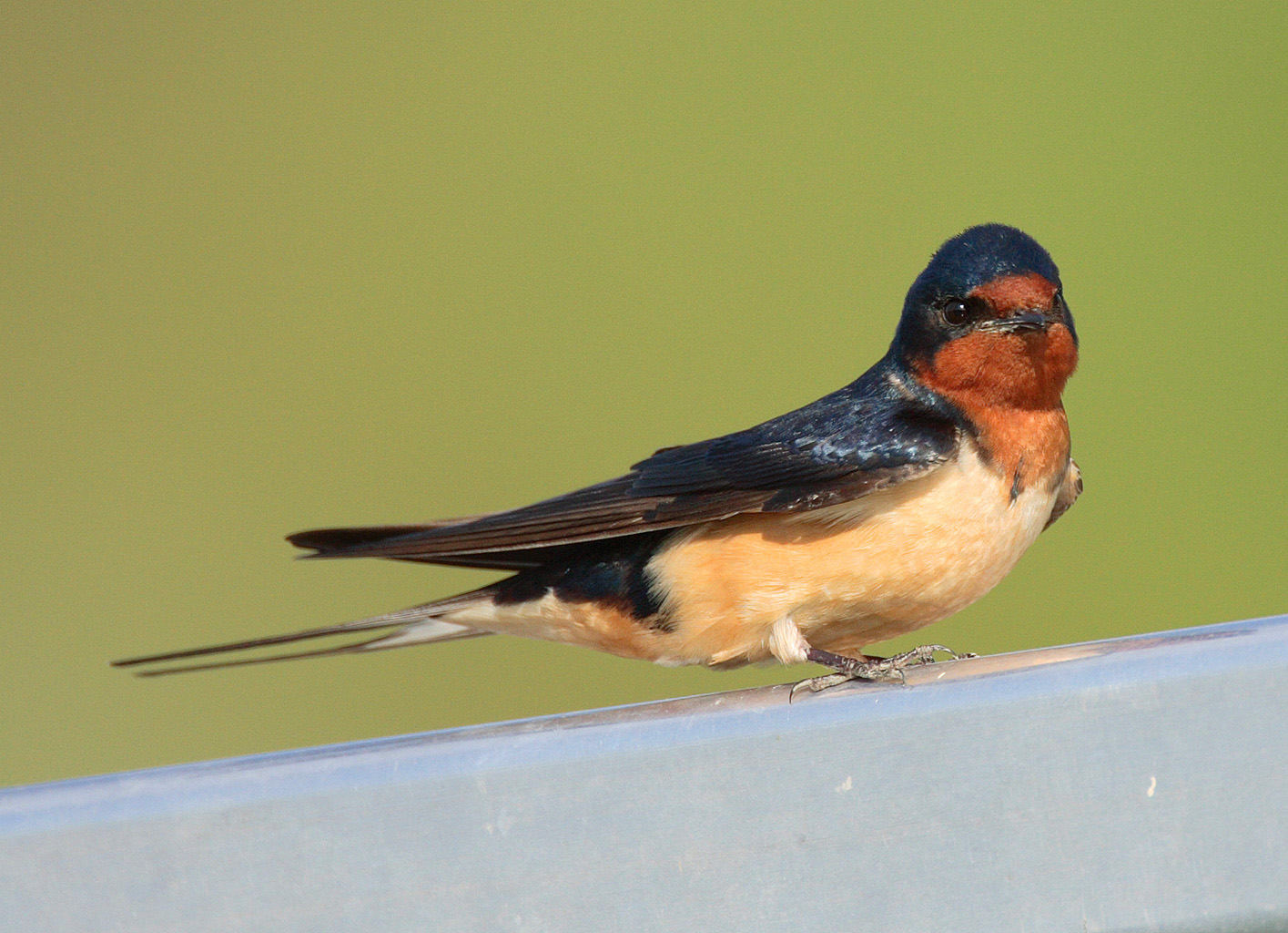 Barn Swallow -- Bluffer's Park (Toronto, Canada) -- 2005